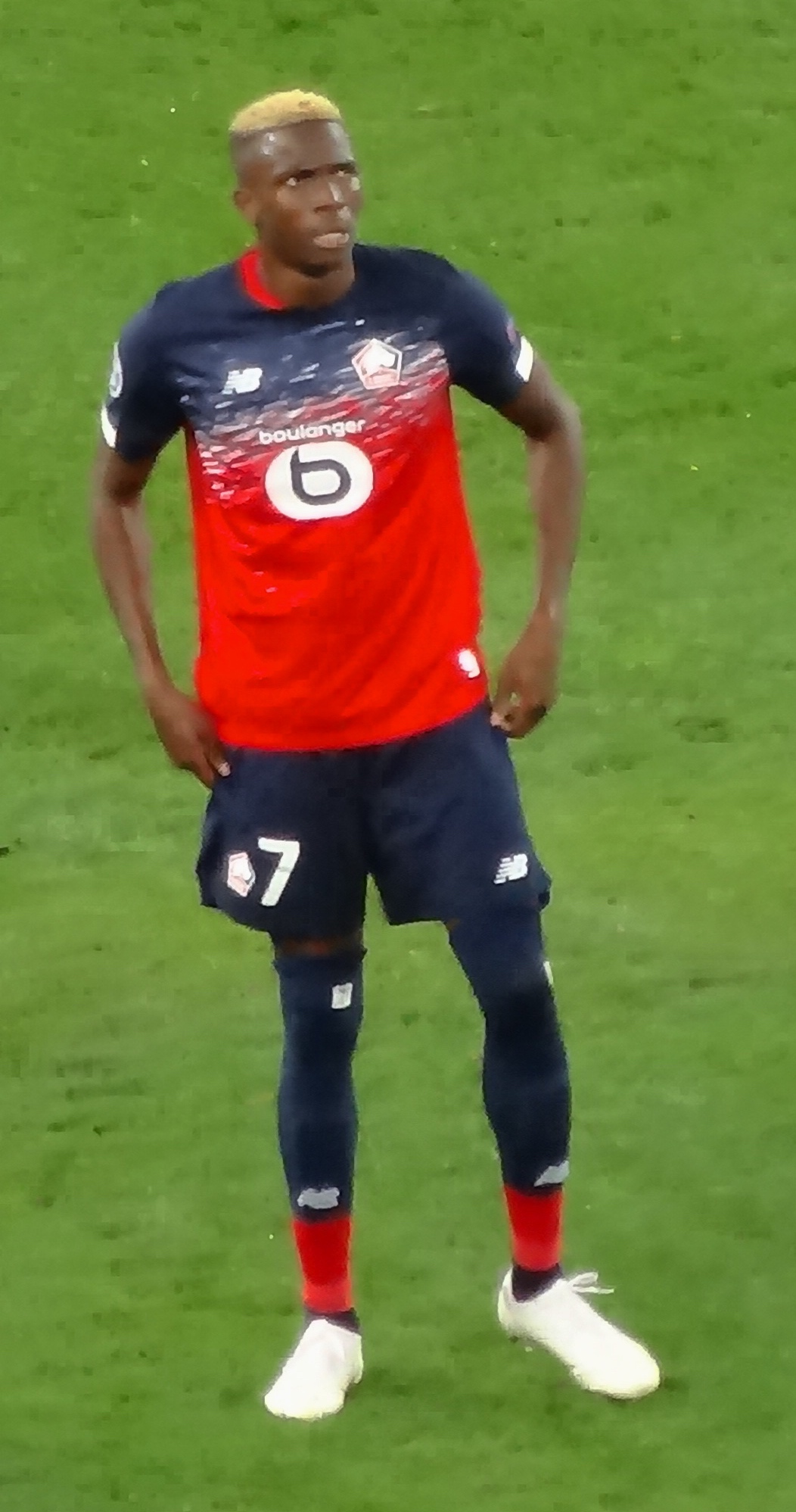 Victor Osimhen (LOSC)